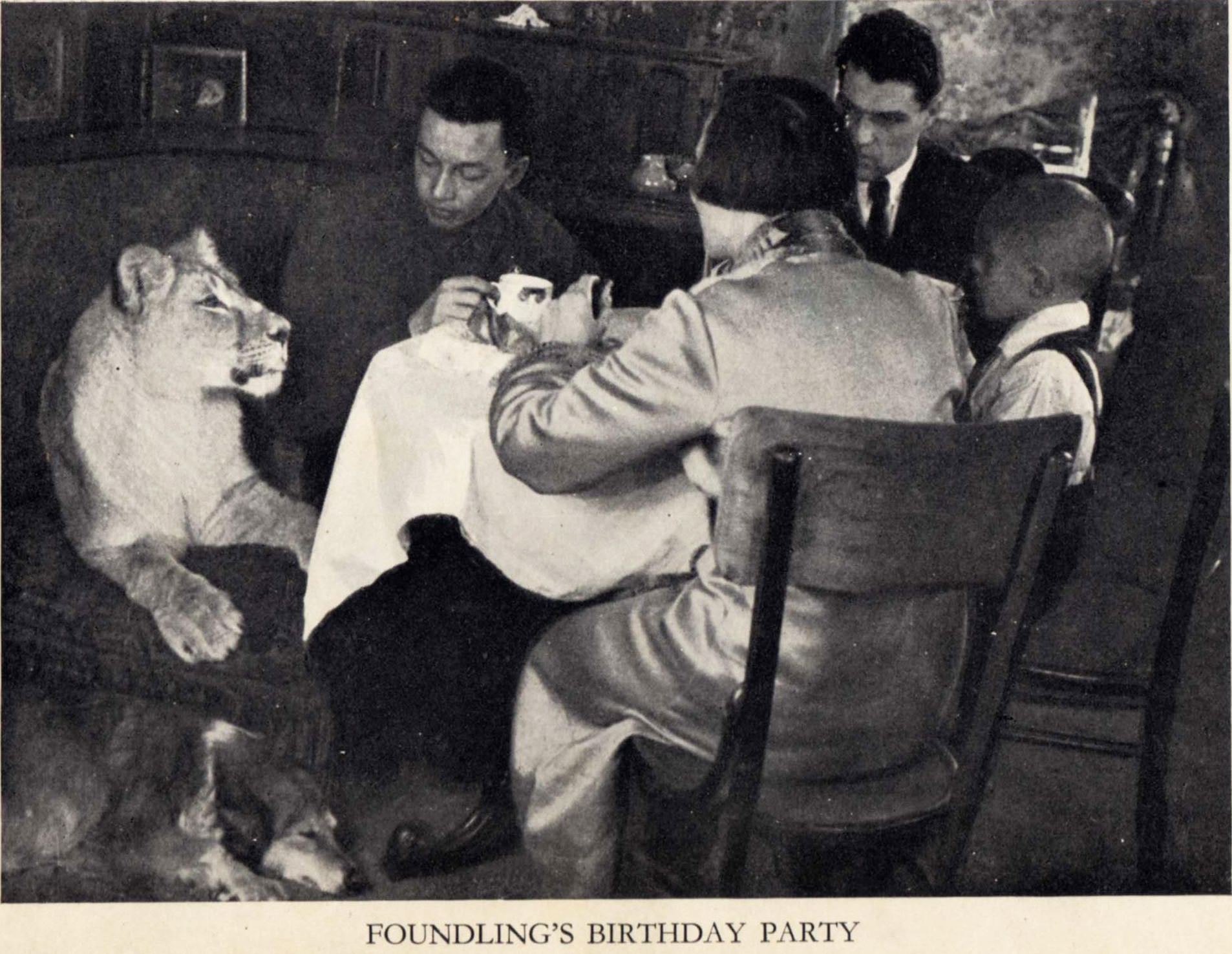 Soviet children's literature writer, naturalist Vera Chaplina (1908 – 1994) with lioness Kinuli at home. Moscow, spring 1936.